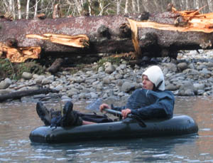 A Sevlyor trail boat in action on the Queets River, Washington.